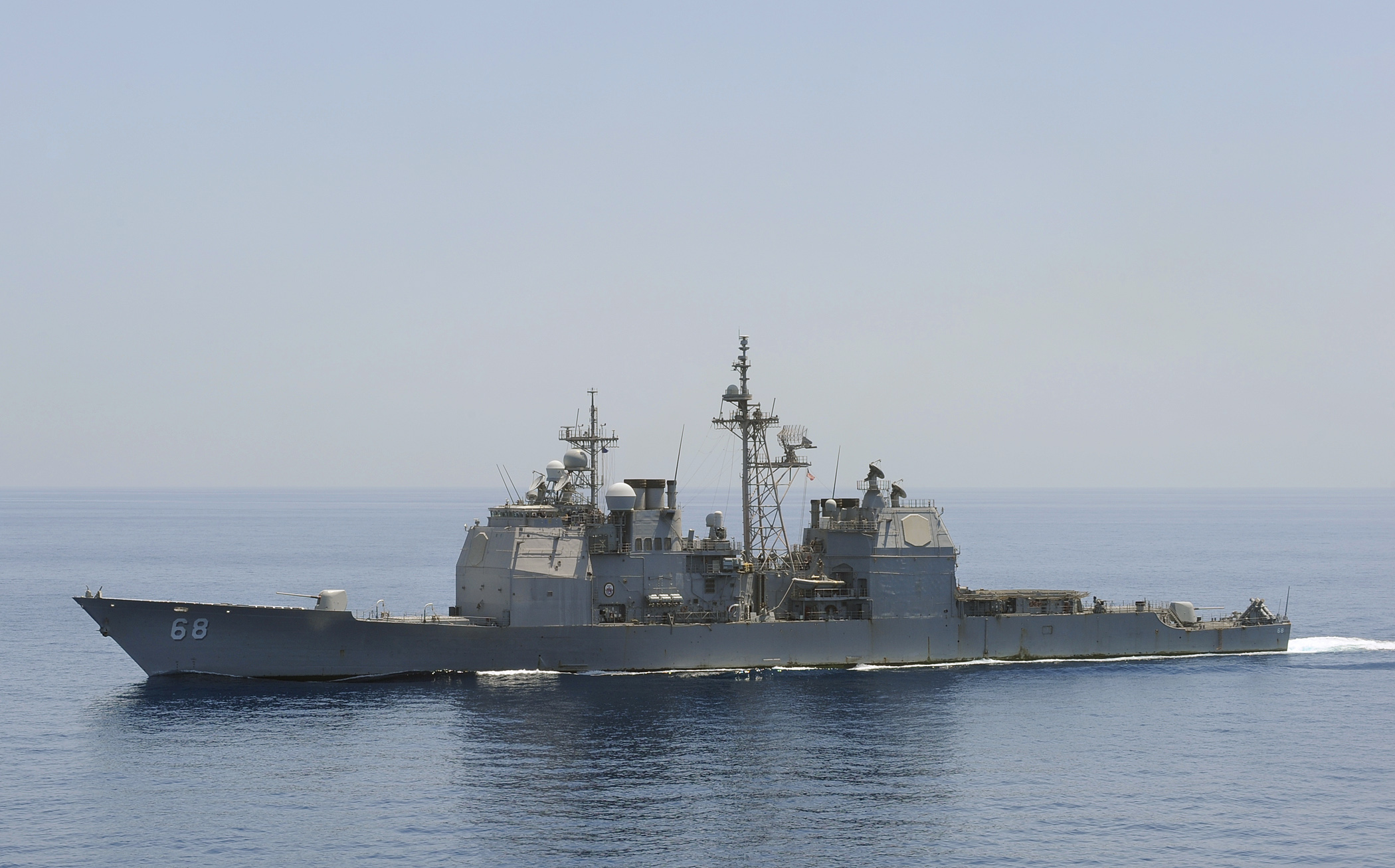 GULF OF ADEN (Oct. 1, 2009) The Ticonderoga-class guided-missile cruiser USS Anzio (CG 68) transits the Gulf of Aden. Anzio is the flagship for Combined Task Force 151, a multinational task force established to conduct counter-piracy operations off the coast of Somalia. (U.S. Navy photo by Mass Communication Specialist 2nd Class Kristopher Wilson/Released)